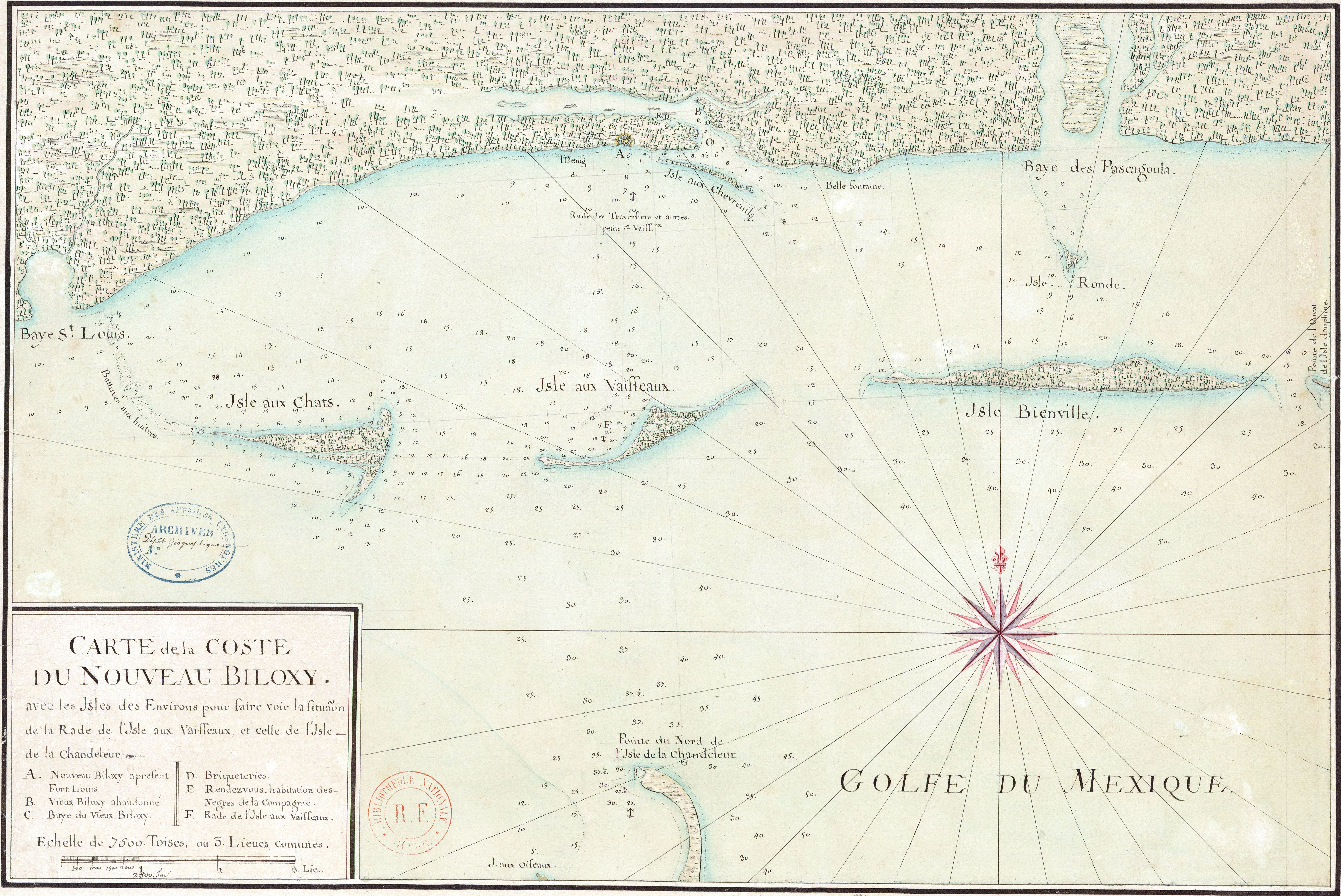 Map of the new Biloxy Coast, french 18th century map. Global scope.